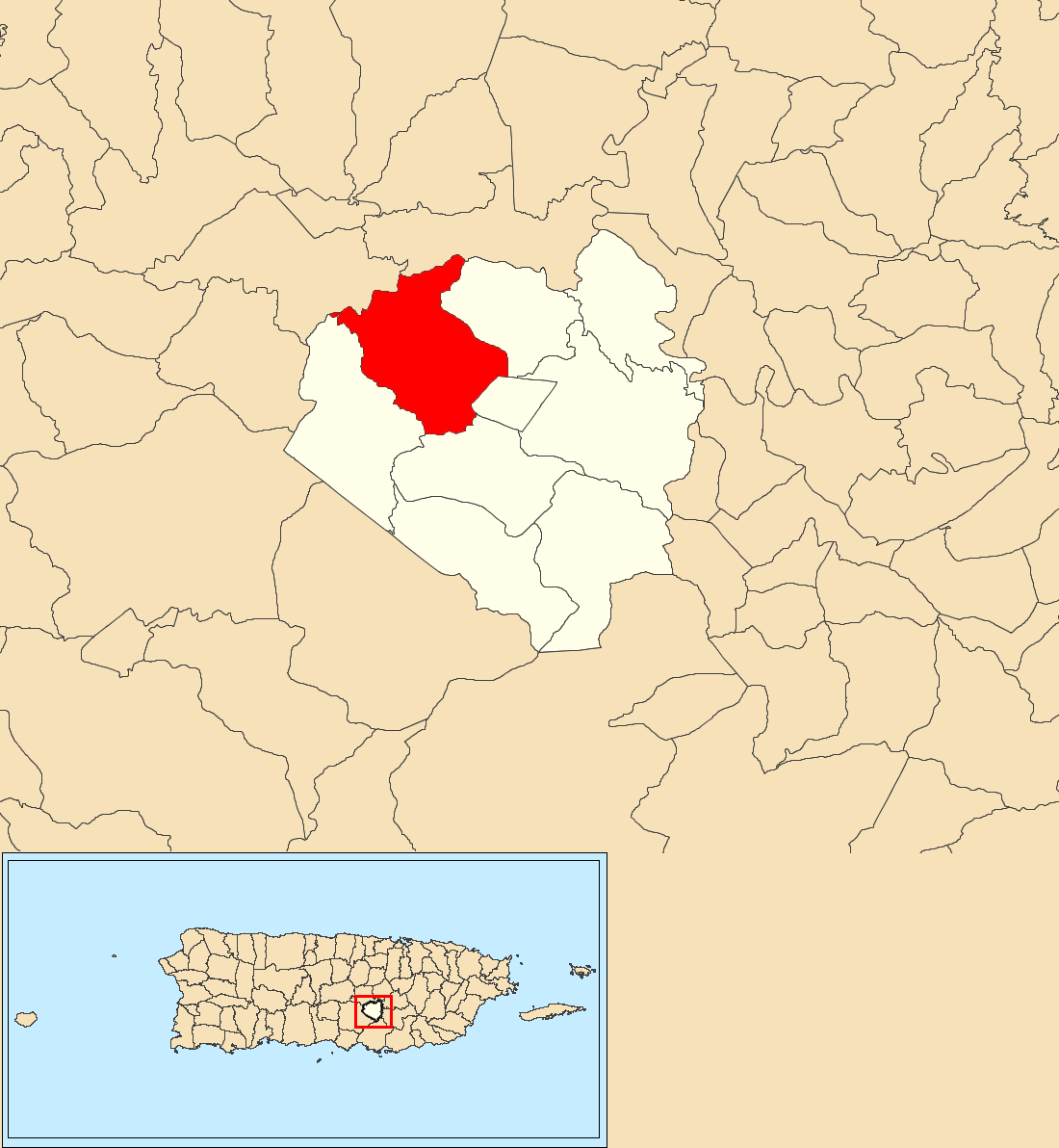 Llanos, Aibonito, Puerto Rico locator map